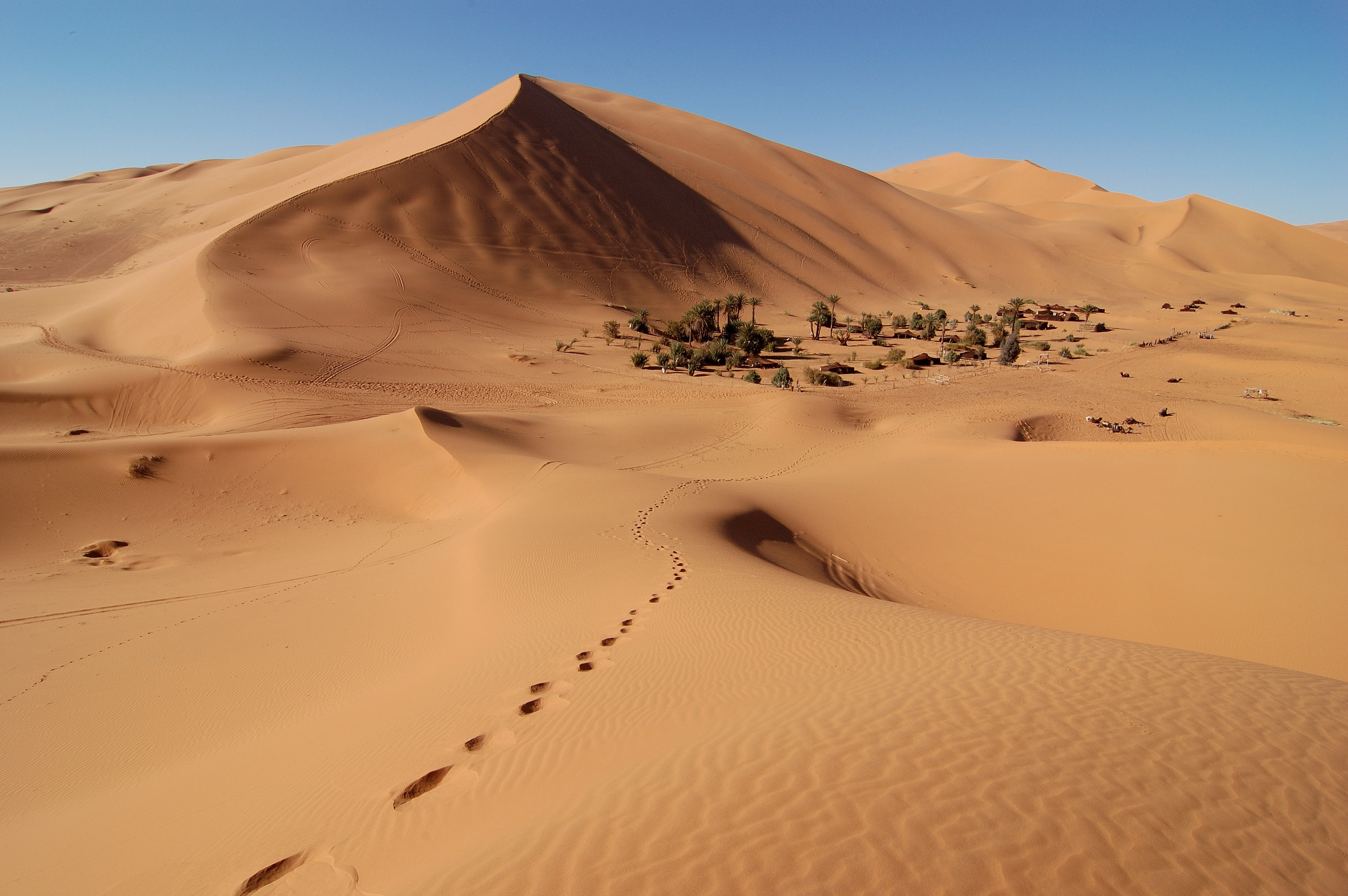 Village in the Saharan dunes of the Erg Chebbi in Morocco